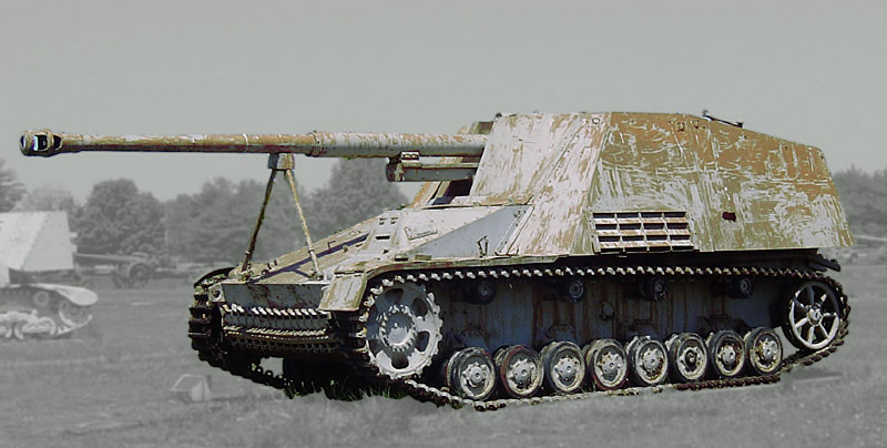 Nashorn on display at the US Army Ordnance Museum in Aberdeen. The picture taken May 7, 2007.